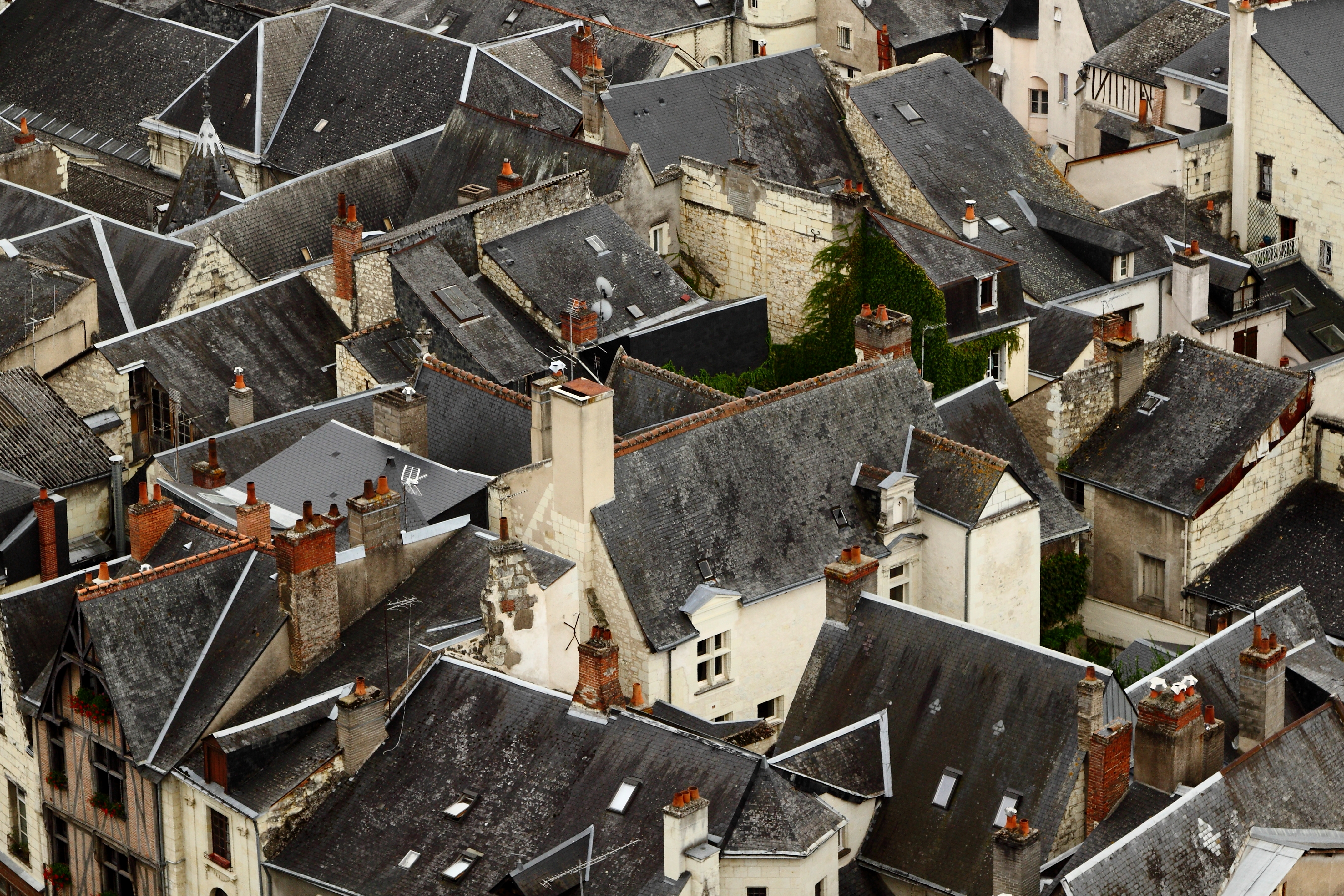 Chinon, Indre-et-Loire, France, as seen from above